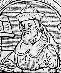 A woodcut of Rashi that appeared in a printing of Postillae maiores totius anni cum glossis & quaestionibus by Guillaume de Parisiensis (William of Paris), published in Lyon in 1539.